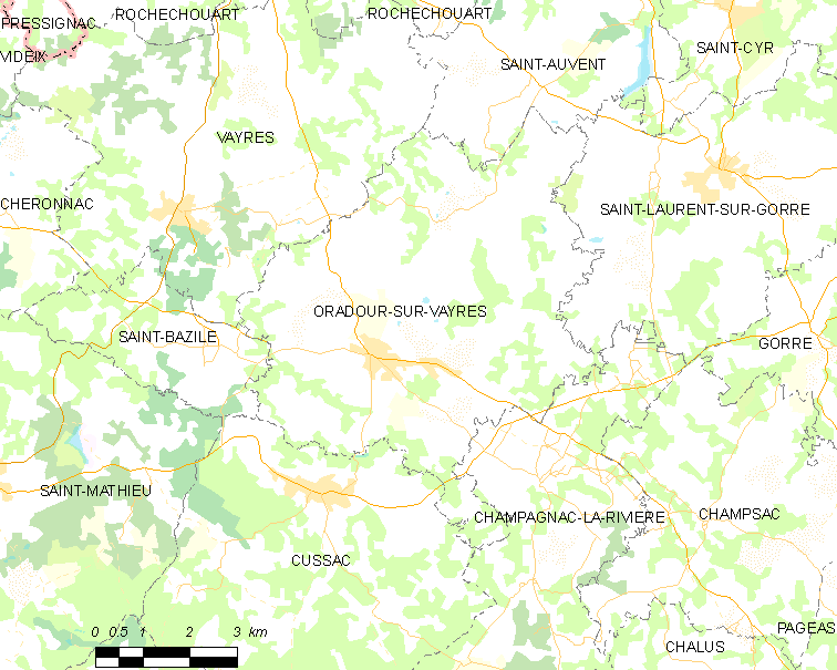 Map of French municipality Oradour-sur-Vayres